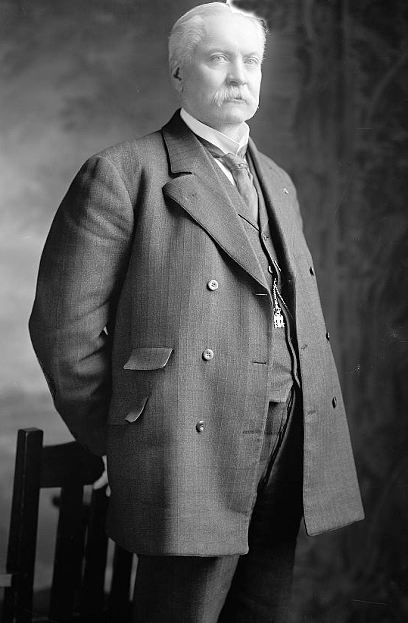 Kittredge Haskins, US Representative from Vermont